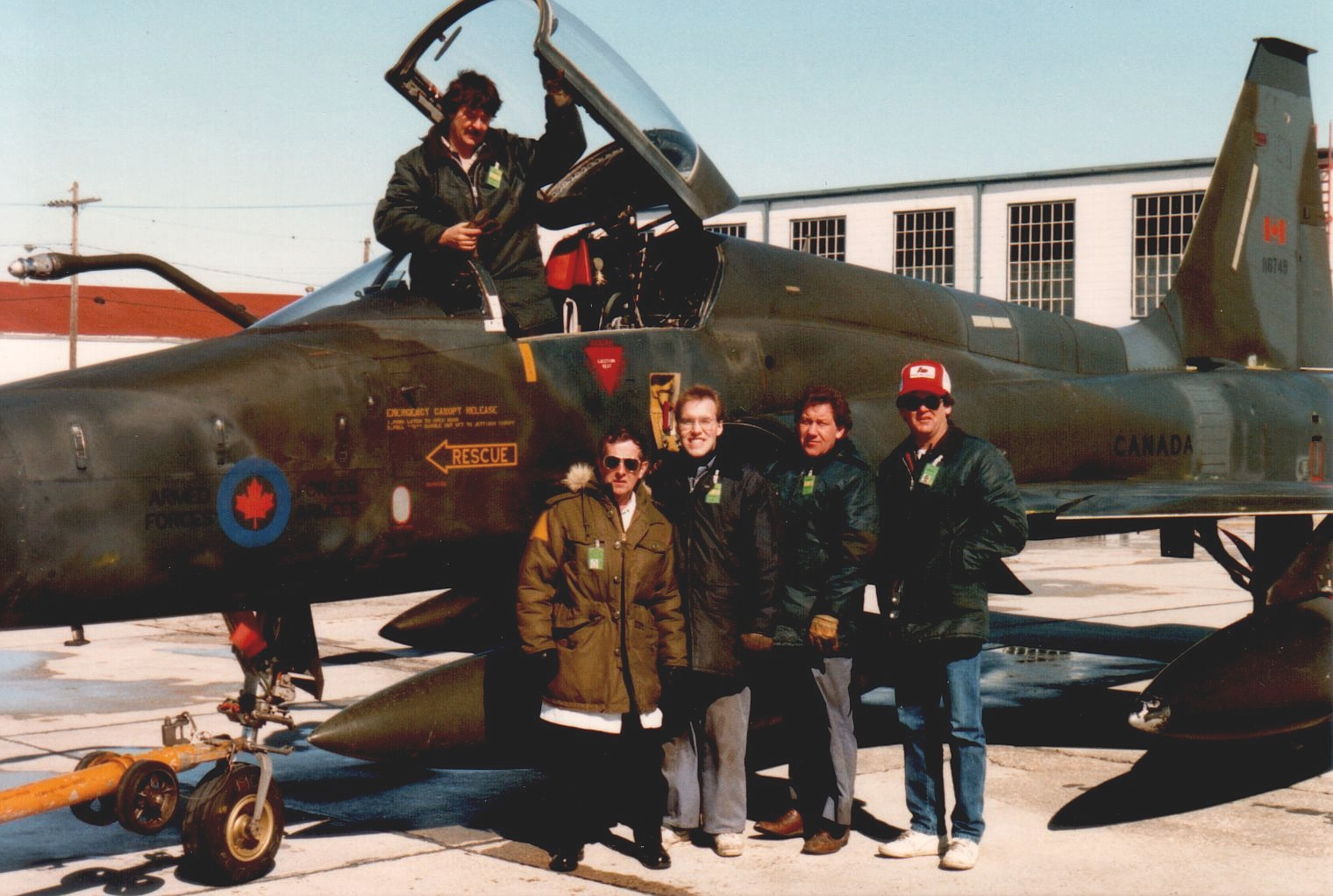 Canadian Forces CF-116A (CF-5A) Freedom Fighter, serial number 116749, arrives at Bristol Aerospace on 01 April 1987. This was the first CF-5 to arrive as part of the consolation contract for the company not getting the CF-18 overhaul contract. The aircraft is seen with the members of the Aircraft Servicing Crew who received it upon arrival at the plant.